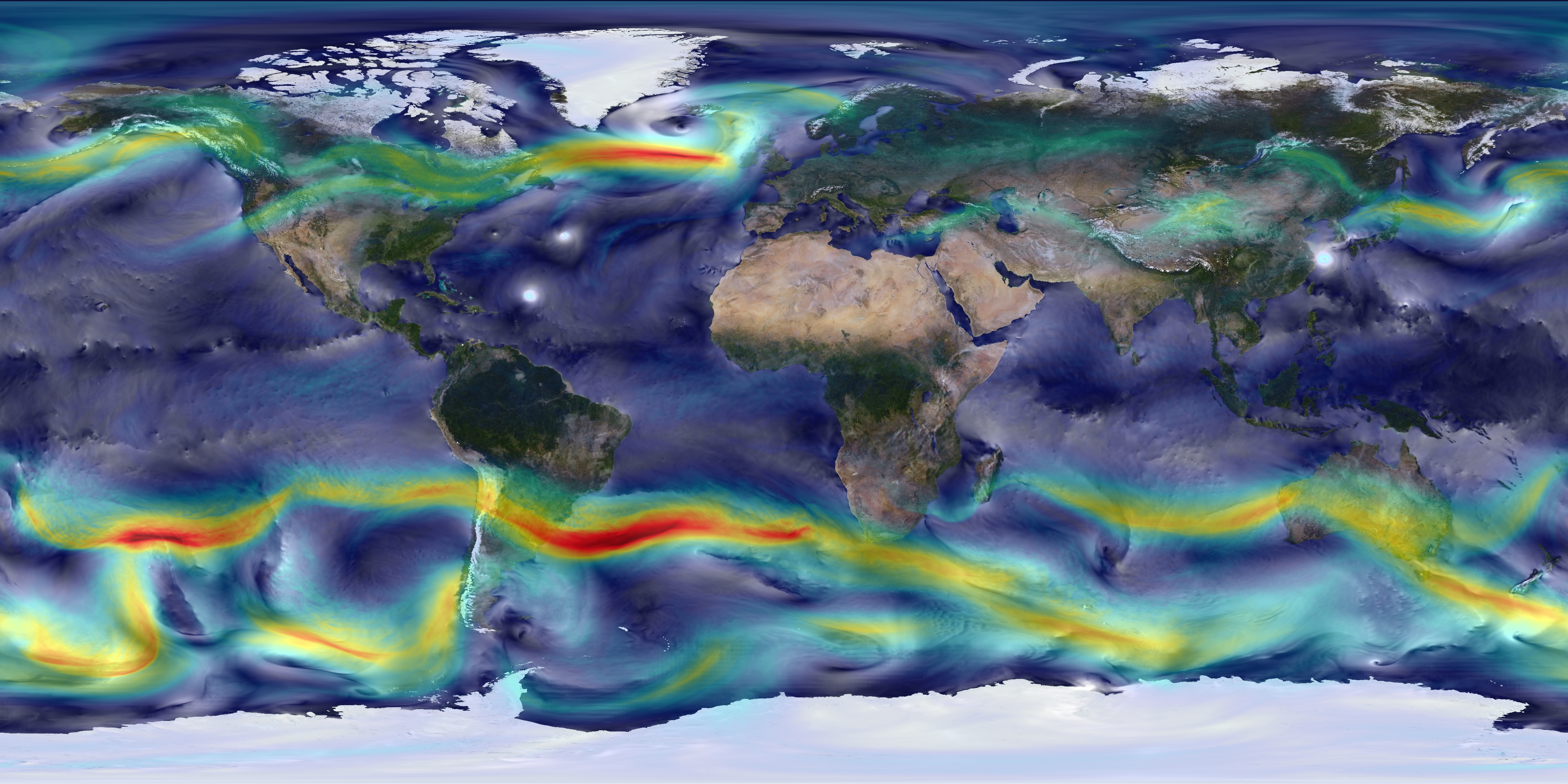 High-resolution global atmospheric modeling provides a unique tool to study the role of weather within Earth’s climate system. NASA’s Goddard Earth Observing System Model (GEOS-5) is capable of simulating worldwide weather at resolutions as fine as 3.5 kilometers. This visualization shows global winds from a GEOS-5 simulation using 10-kilometer resolution. Surface winds (0 to 40 meters/second) are shown in white and trace features including Atlantic and Pacific cyclones. Upper-level winds (250 hectopascals) are colored by speed (0 to 175 meters/second), with red indicating faster. This simulation ran on the Discover supercomputer at the NASA Center for Climate Simulation. The complete 2-year “Nature Run” simulation — a computer model representation of Earth's atmosphere from basic inputs including observed sea-surface temperatures and surface emissions from biomass burning, volcanoes and anthropogenic sources—produces its own unique weather patterns including precipitation, aerosols and hurricanes. A follow-on Nature Run is simulating Earth’s atmosphere at 7 kilometers for 2 years and 3.5 kilometers for 3 months.